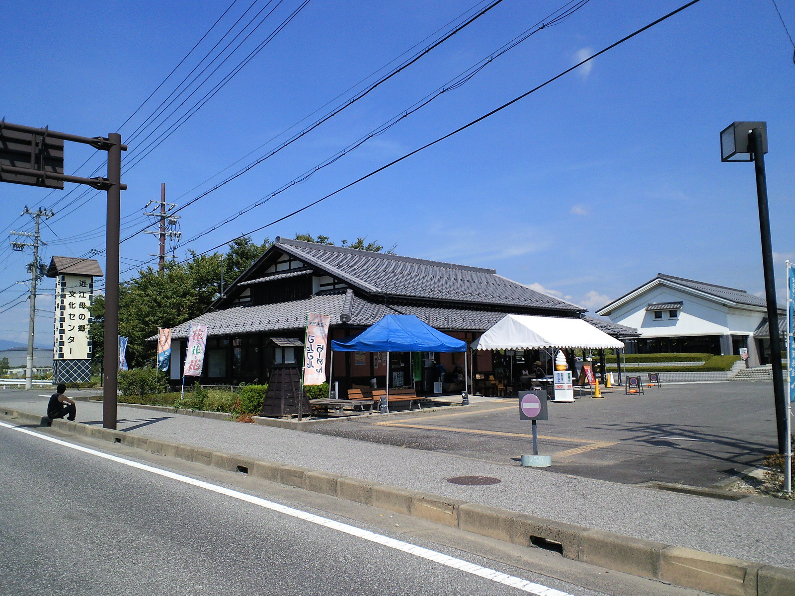 Omi Hahanosato a Roadside Station, Maibara, Shiga